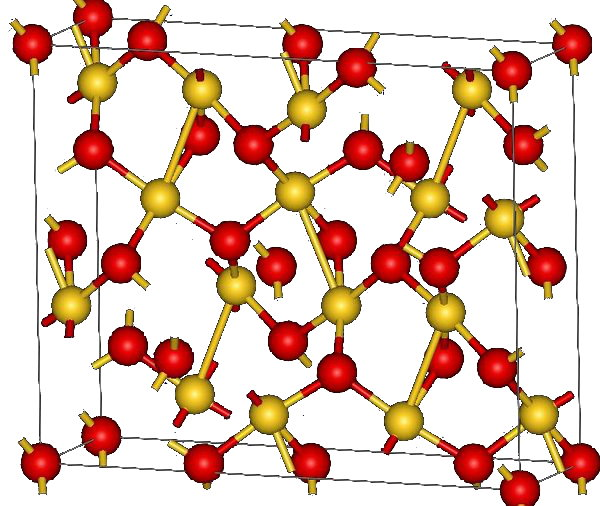 Au2O3 structure